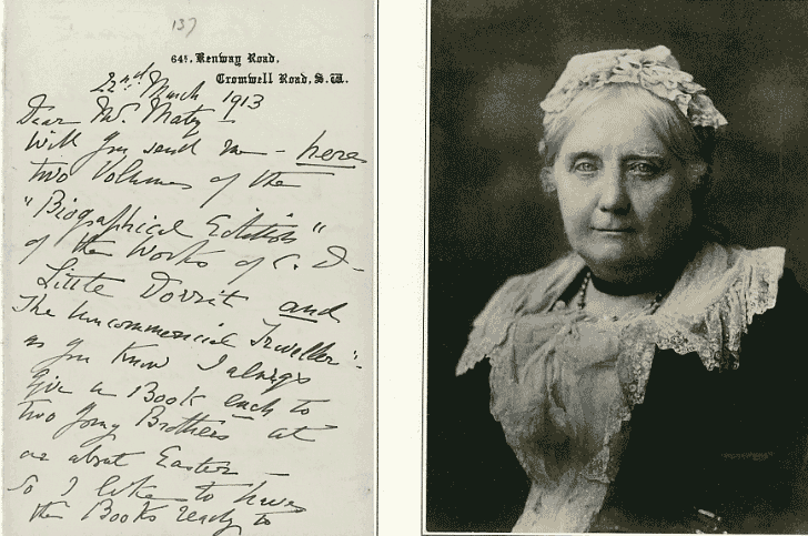 Page 1 of a manuscript letter by Georgina Hogarth, with photograph of Georgina in her old age.